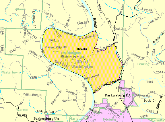 Map of Devola, a census-designated place (CDP) in Washington County, Ohio, United States, with its boundaries at the time of the 2000 census.